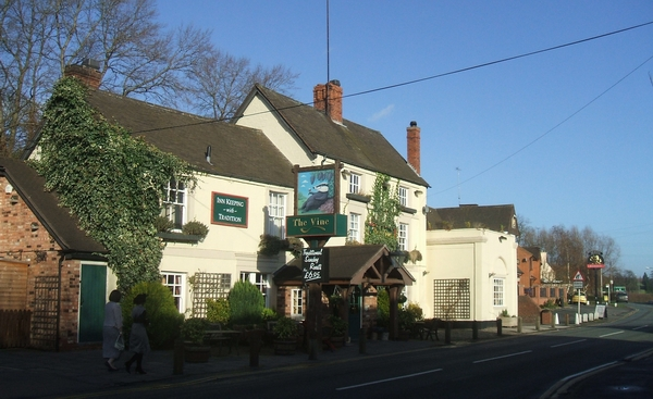 The Vine public house in Wombourne, Staffordshire, Great Britain - a traditional hostelry on the edge of Wombourne village opposite the Police Station. It is a contrast to the more recent pub next door.